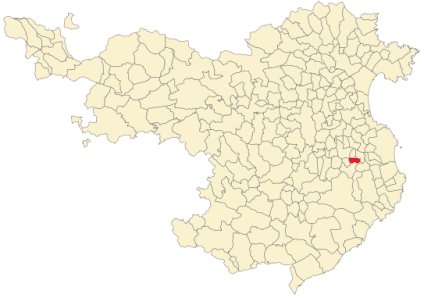 Parlavà